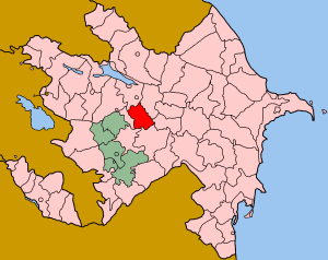 Map of Azerbaijan showing Barda (Bərdə) rayon.